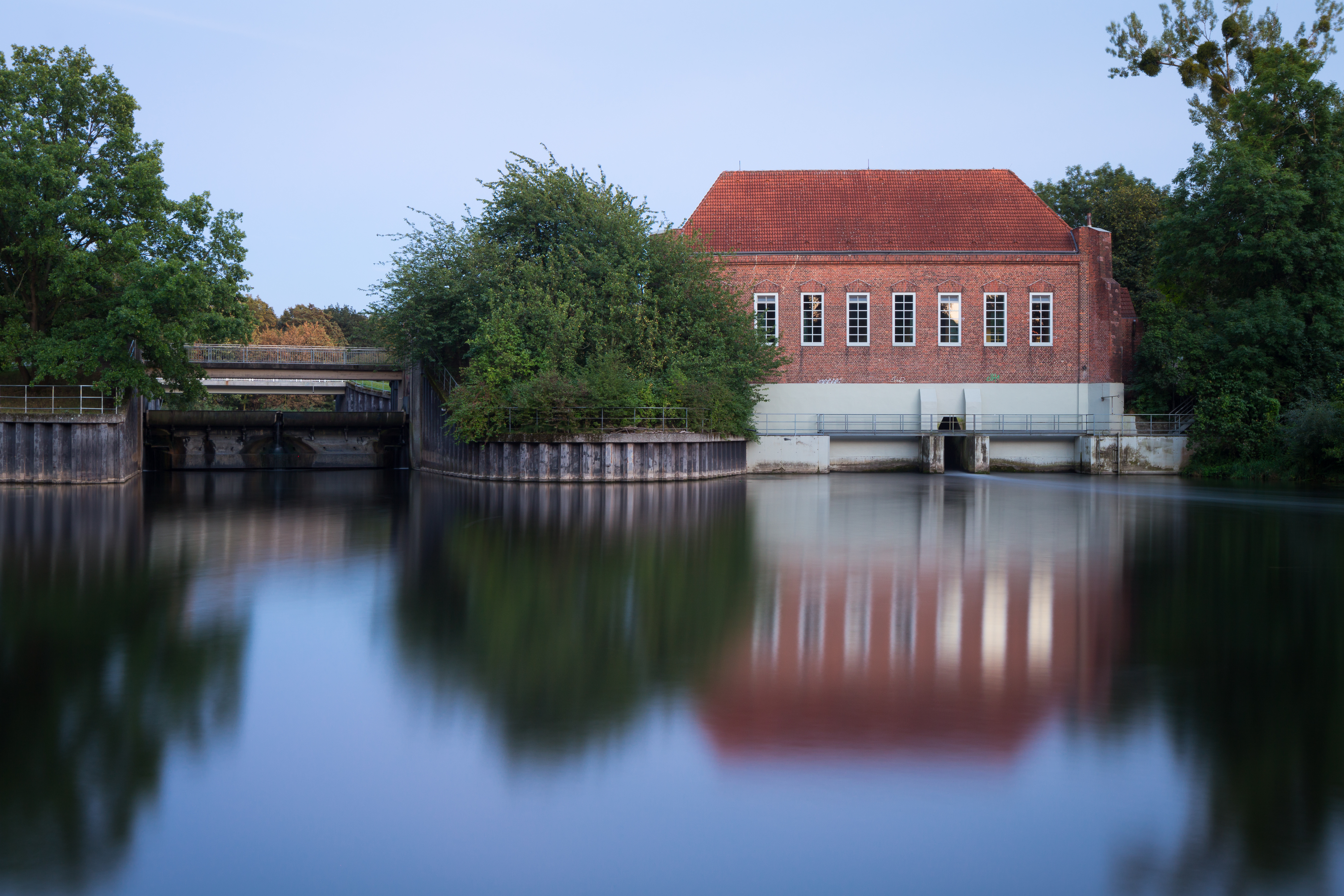 Hydroelectric power plant located at Schneller Graben stream in Ricklingen quarter of Hannover, Germany.